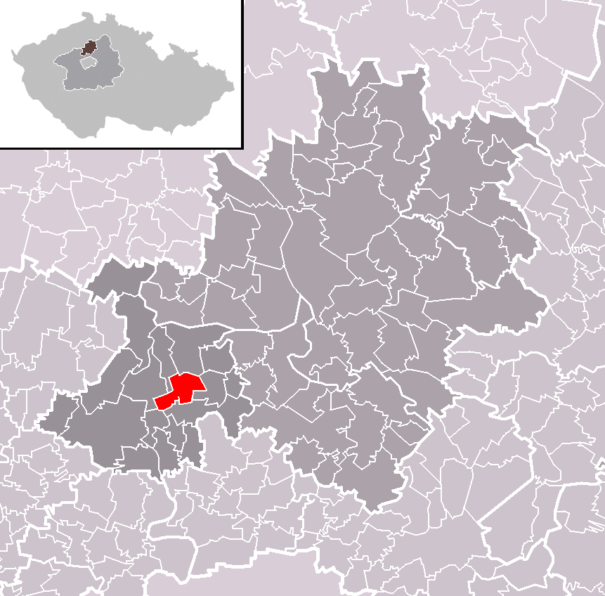 Location of Zlosyň municipality within Mělník District and administrative area of Kralupy nad Vltavou as a Municipality with Extended Competence.